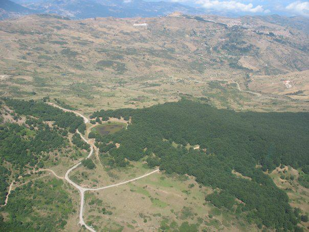 This is a photo of a monument which is part of cultural heritage of Italy. This monument needs check. The problem is the following: this monument is not listed in the monument list.